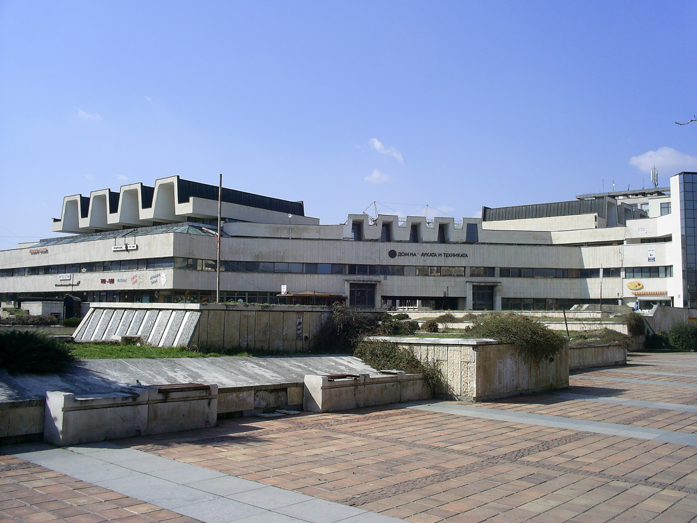 Botevgrad, Bulgaria: The House of science and technology